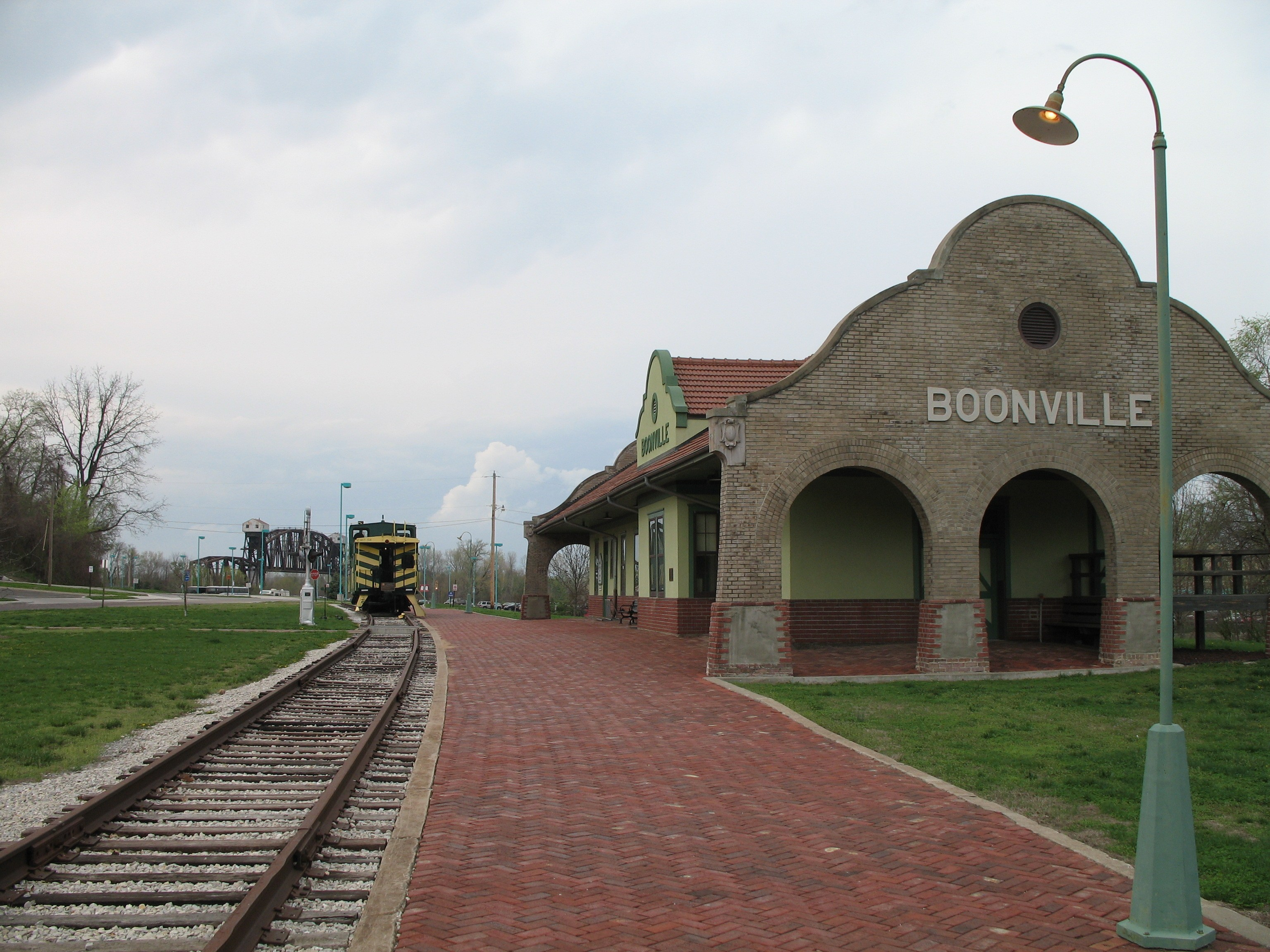 MKT Bridge with the Boonville train station on the KATY Trail in the foreground. Photo by poster in March 2007.